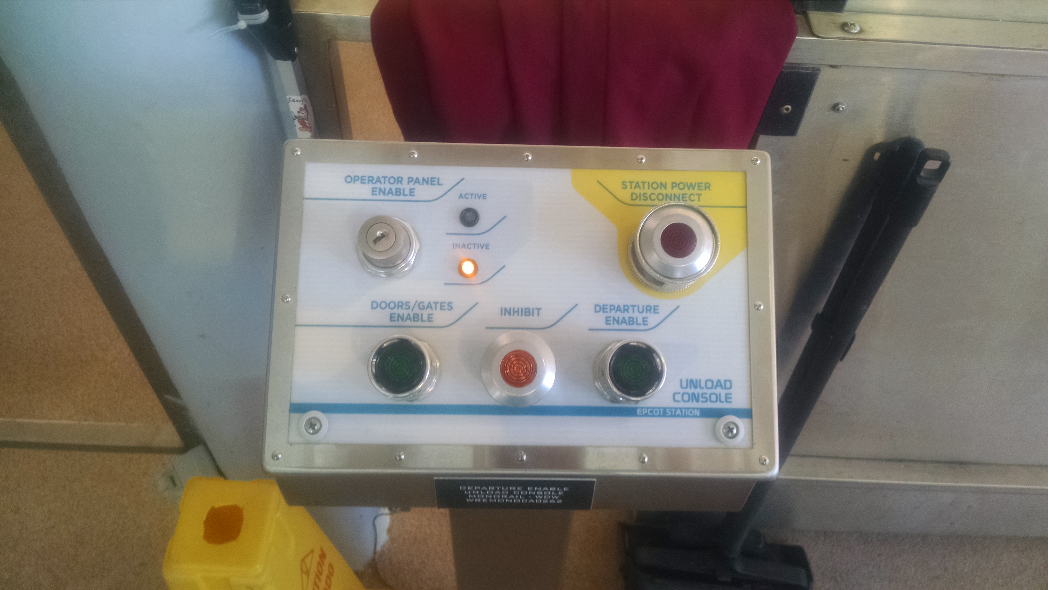 EPCOT Monorail Station Automation Panel